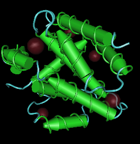 Three dimensional representation of the structure of a typical alcelaphine herpes viral package.